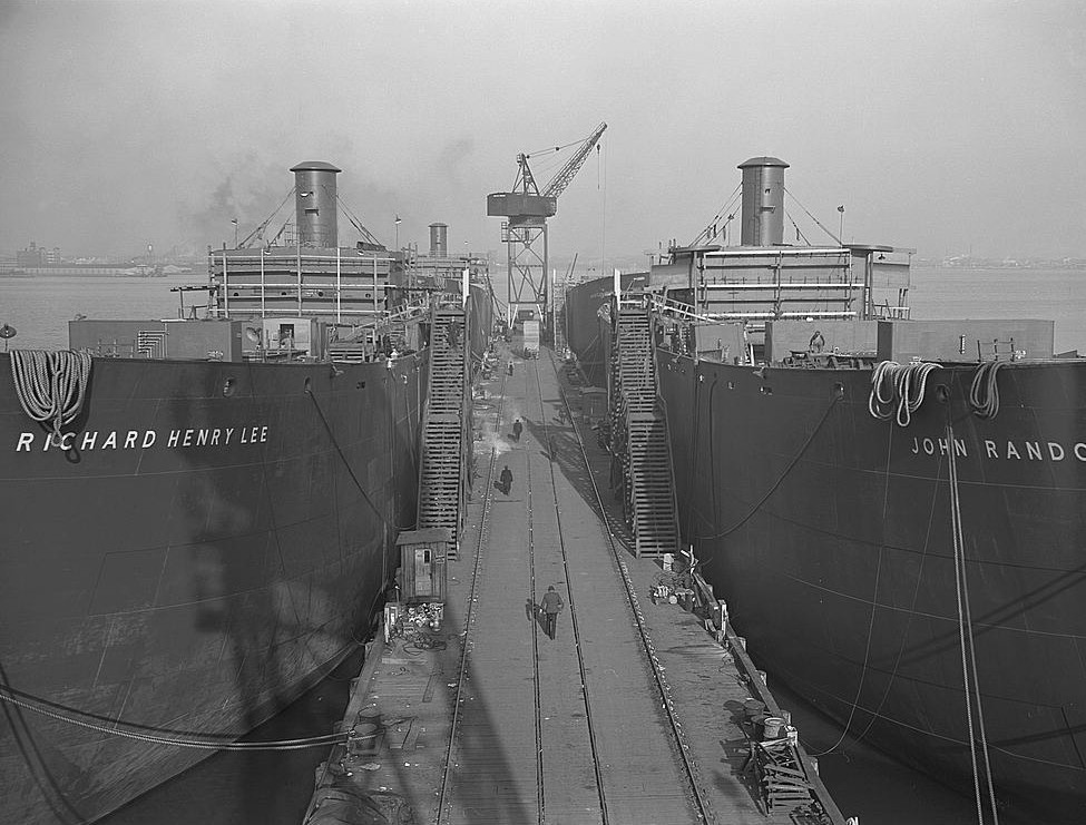 Construction of a Liberty ship at Bethlehem-Fairfield Shipyards Inc., Baltimore, Maryland (USA) in February 1942: SS Richard Henry Lee and SS John Randolph are fitting out. The SS John Randolph was mined and sunk in an Allied minefield in the Denmark Strait on 5 July 1942. The forepart was salved but it broke from the tow and was wrecked at Torrisdale Bay, Sutherland, Scotland (UK). Original caption: “Liberty" ships. Here are two members of the Liberty Fleet lying at anchor in the basin of a large Eastern shipyard. Bethlehem-Fairfield Shipyards Inc., Baltimore, Maryland”